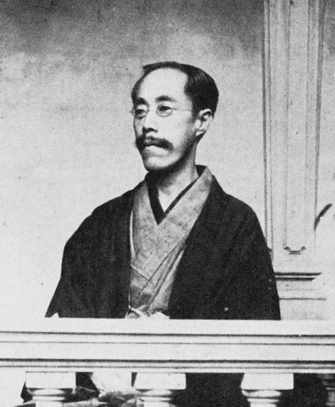 Okitomo Akimoto